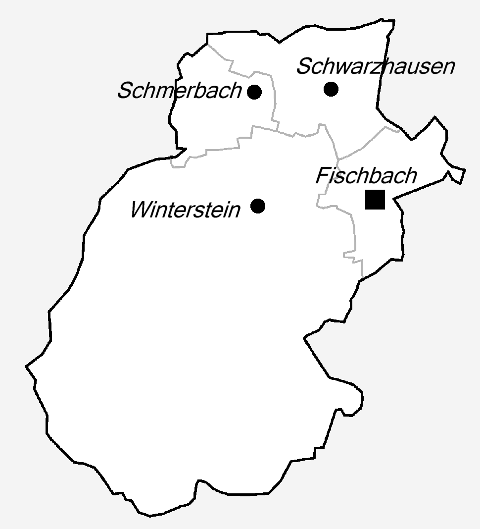 District-Map of Emsetal.